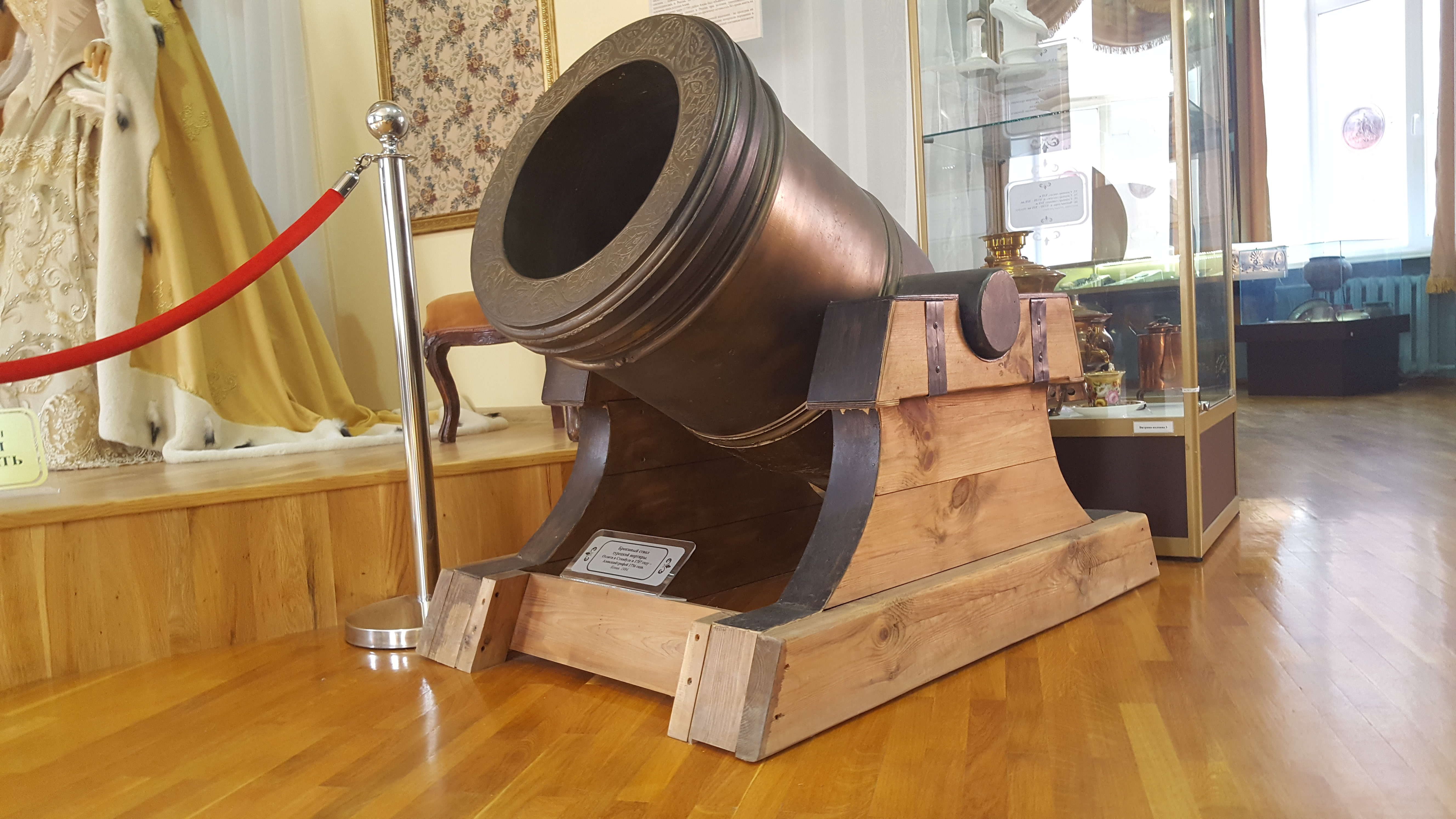 Turkish mortar, cast in 1707, in the Azov History, Archaeology and Paleontology Museum-Reserve.